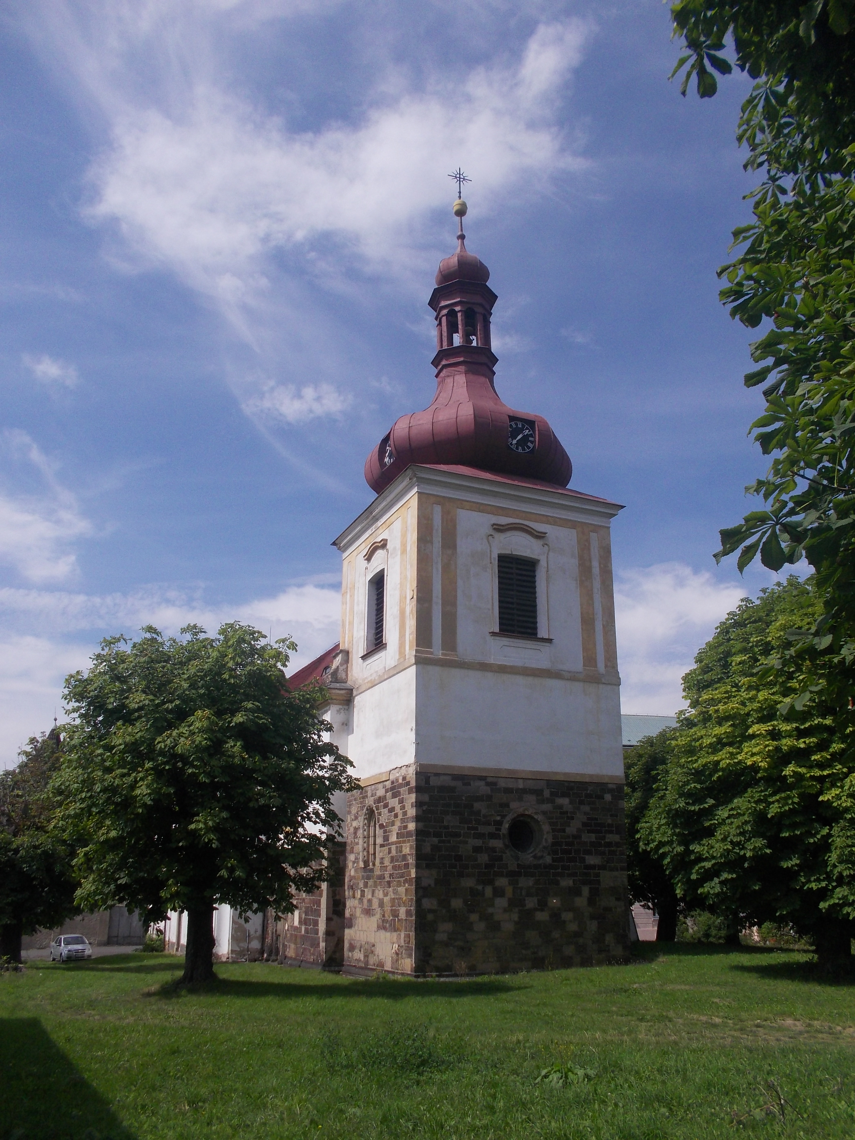 Kostomlaty pod Milešovkou, St Laurence Church